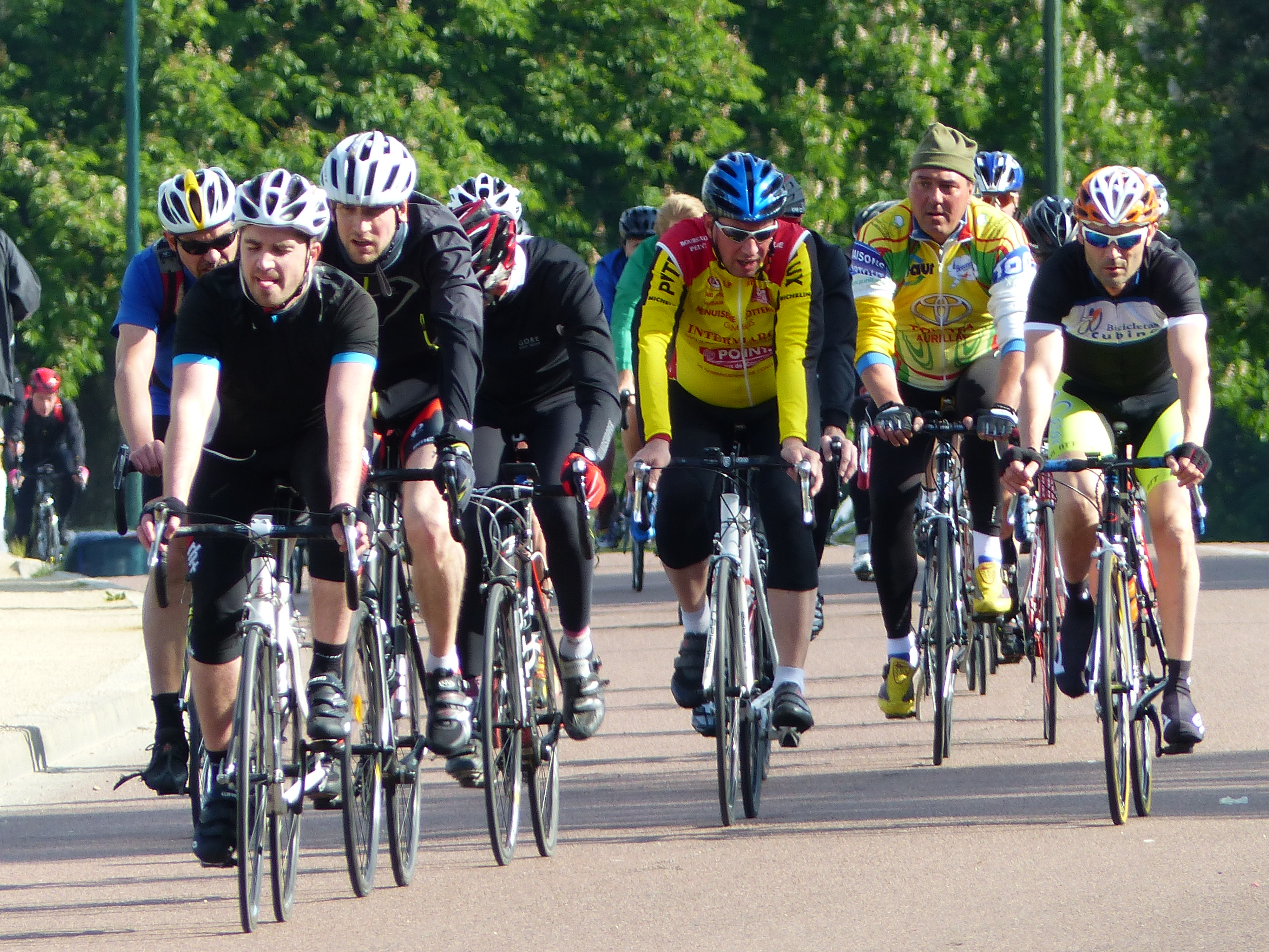 Bois de Boulogne. Paris, France. Taken on the 15th of May, 2016. Handicap International – Courier Ensemble.